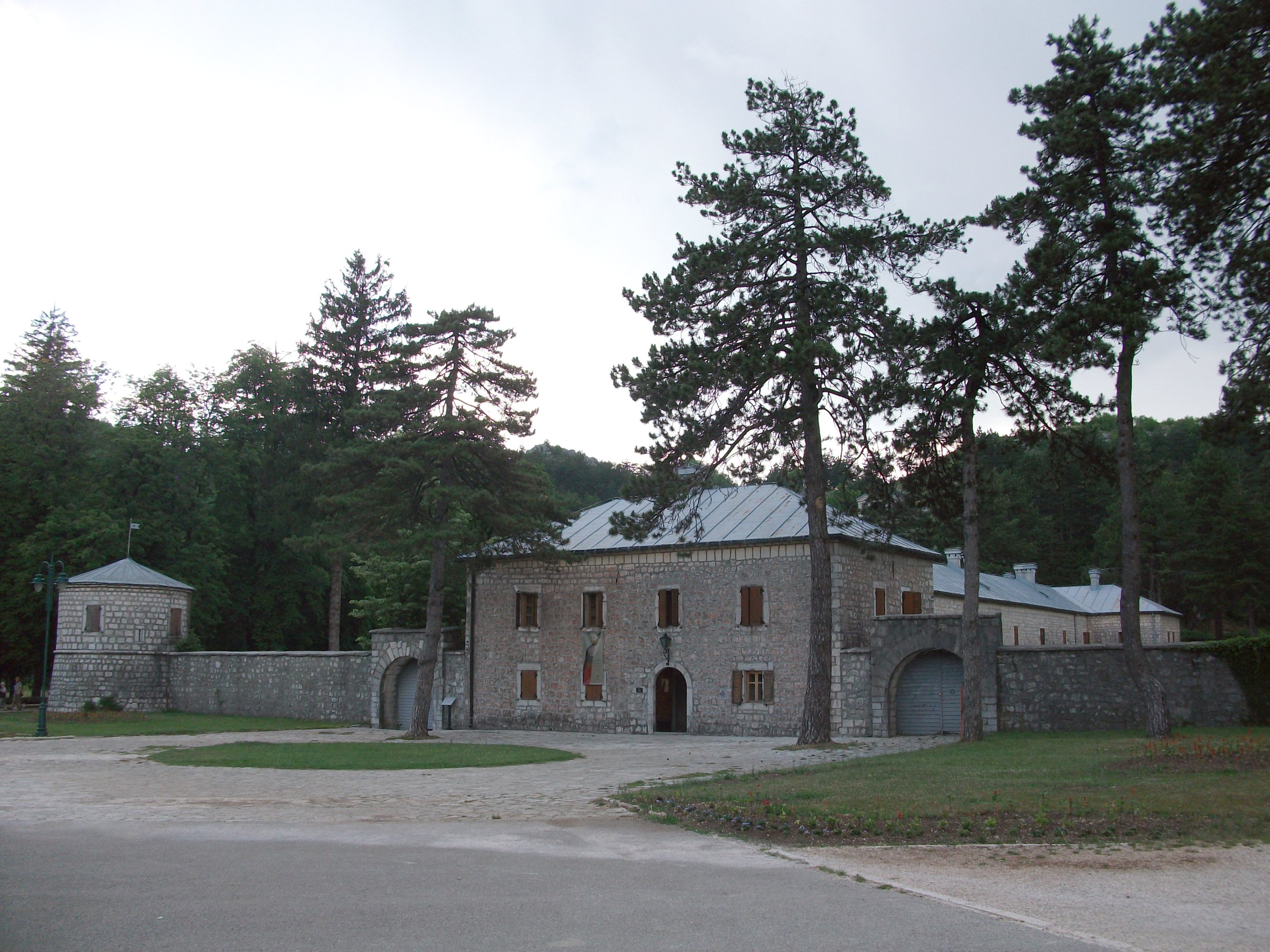 Wednesday, June 15, 2011